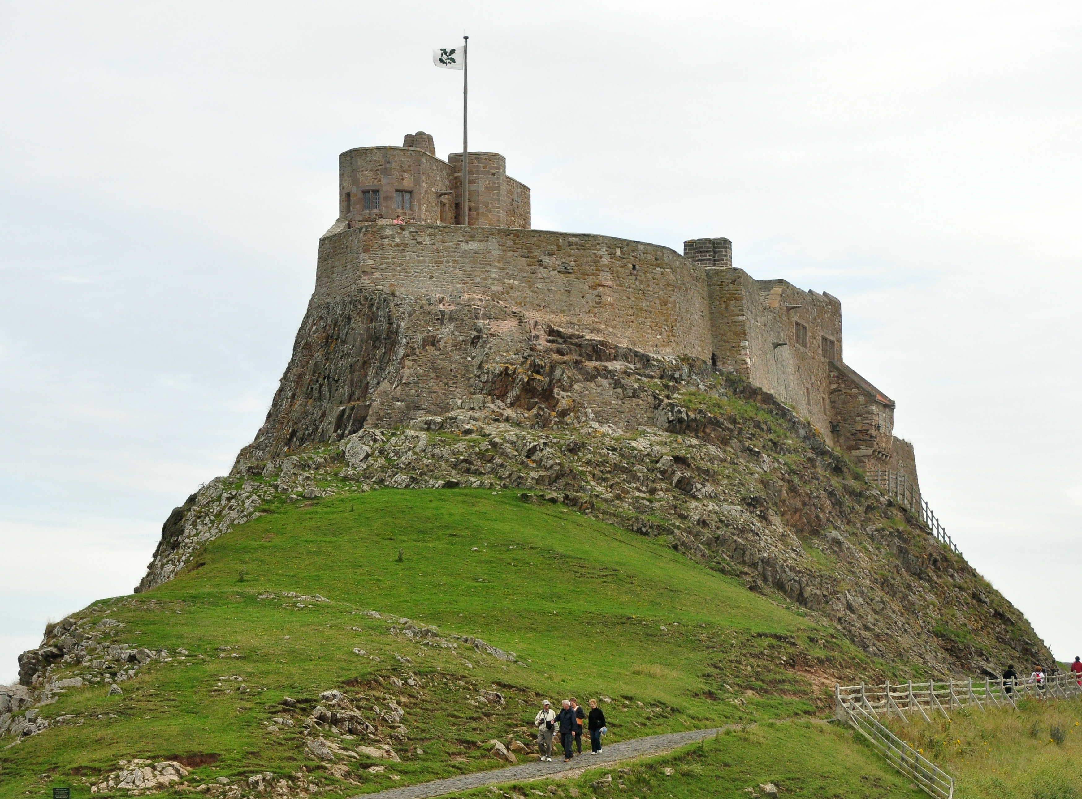 View of Lindisfarne Castle, on Holy Island, Northumberland.